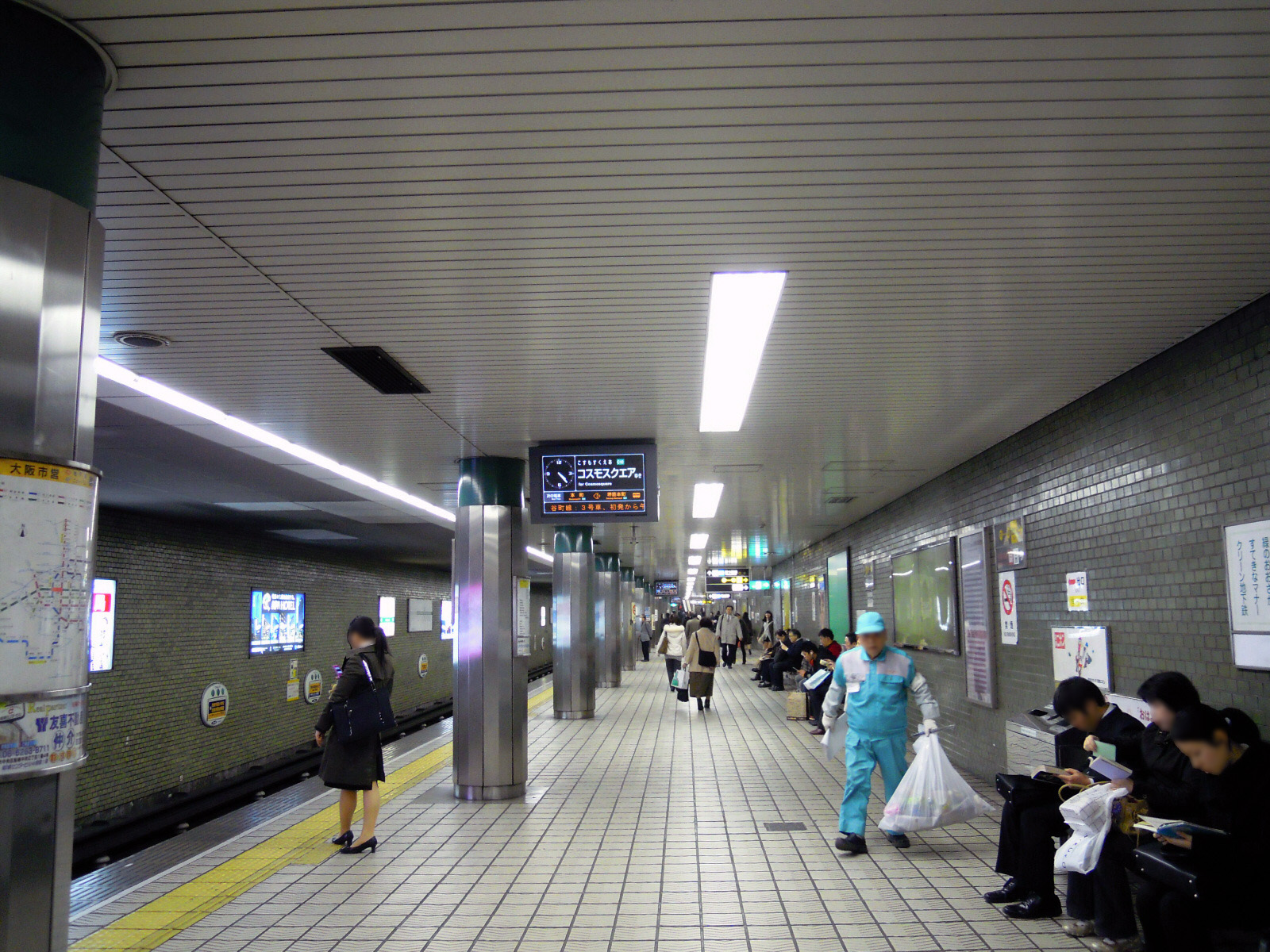 Chuo Line Honmachi station platform